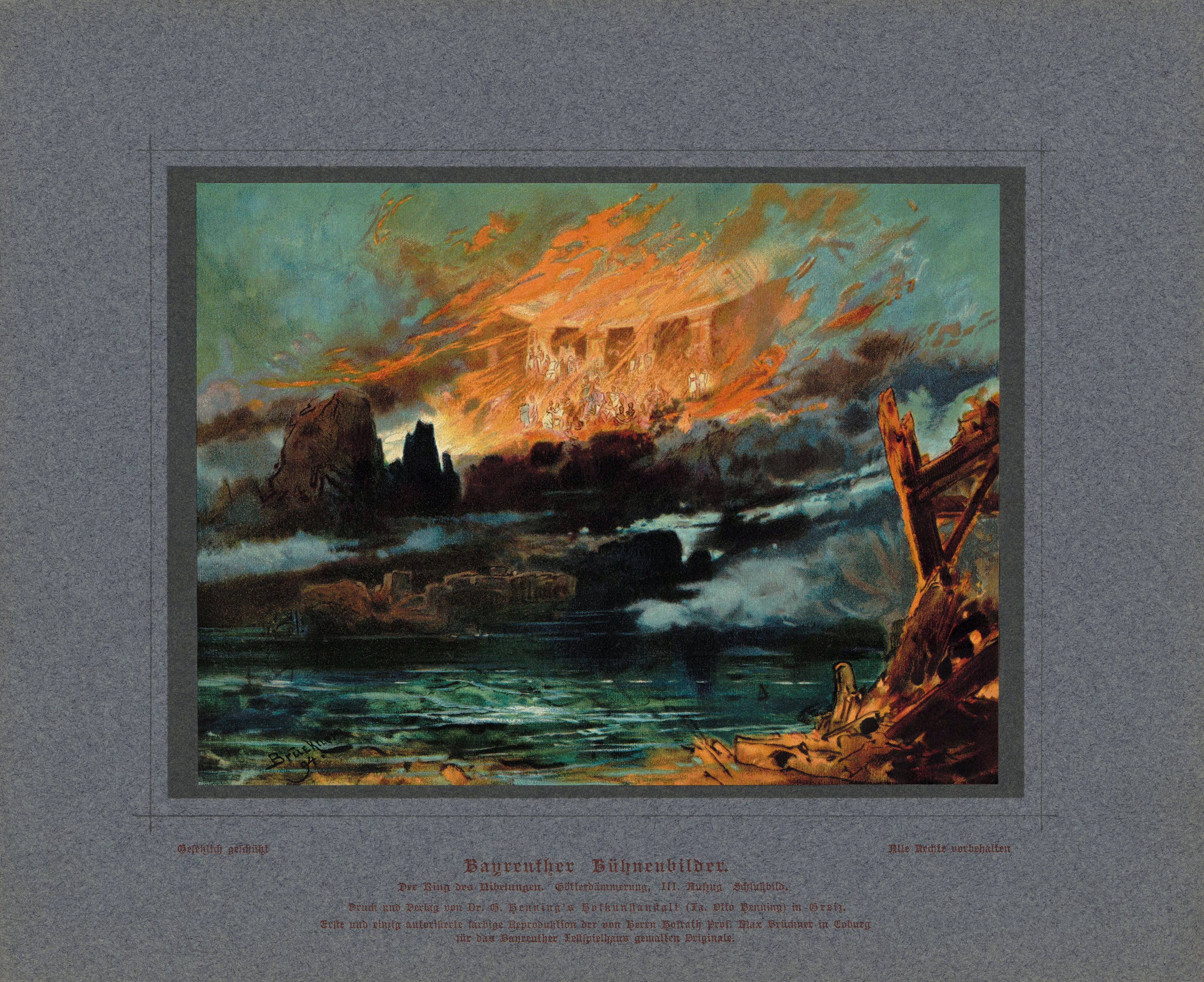 "Bayreuther Bühnenbilder. Der Ring der Nibelungen. Götterdämmerung, III. Aufzug Schlussbild" - Reproduction of the set design by Max Brückner of the final scene from Richard Wagner's Götterdämmerung, showing Valhalla on fire. The German text makes it clear this is the "Genuine and only authorized color reproduction of the painted original by Royal Councillor Prof. Max Brückner in Coburg for the Bayreuth Festival Theatre."